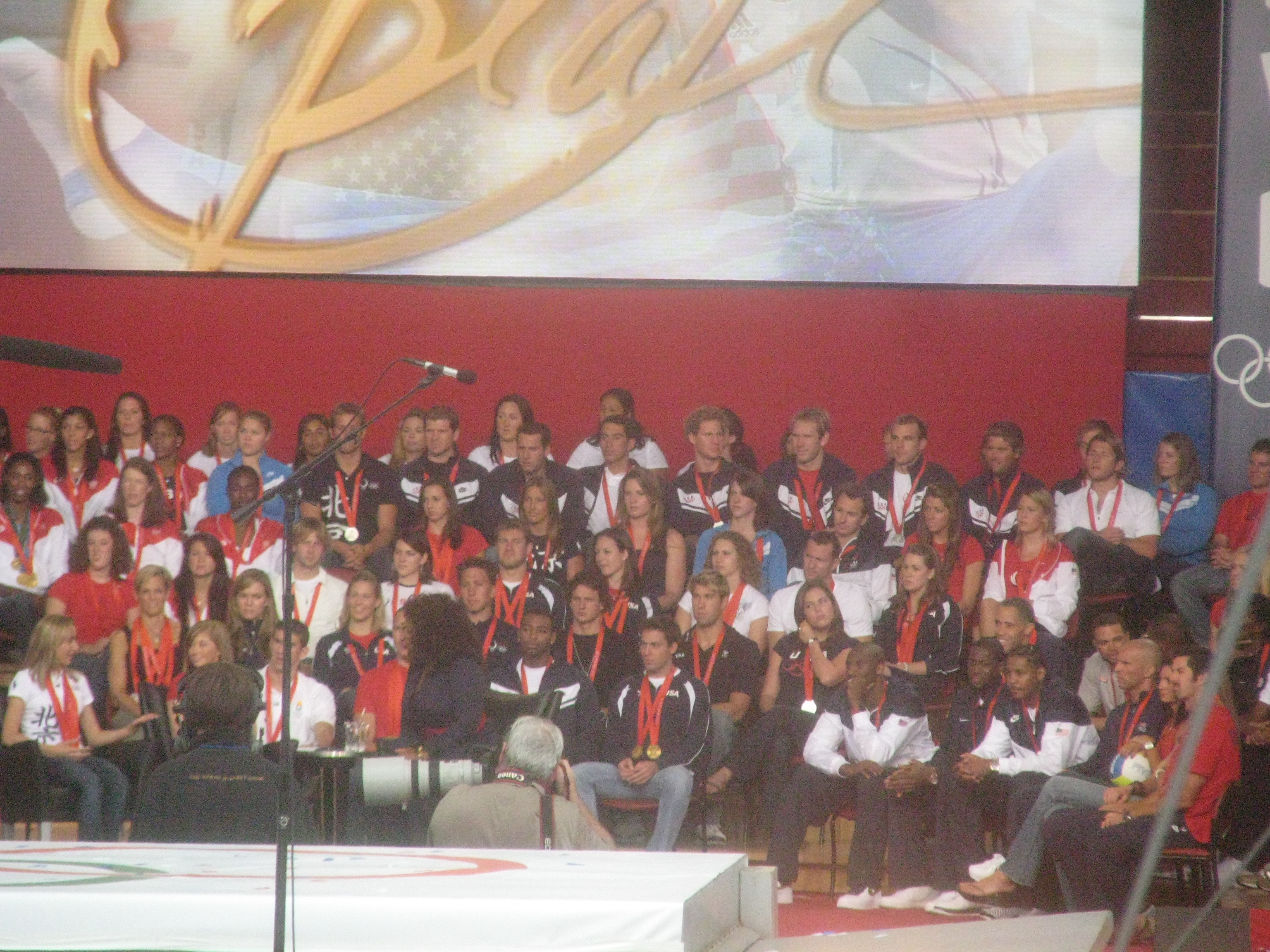 Nastia Liukin responds to Oprah Winfrey at September 3, 2008 taping of season-opening September 8 Oprah Winfrey Show at the Jay Pritzker Pavilion with 2008 Summer Olympics medalists